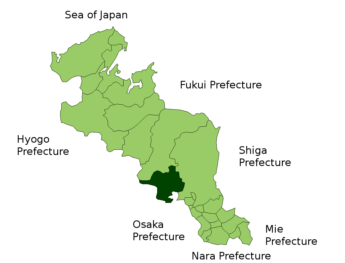 Location Map of Kameoka in Kyoto-fu, Japan